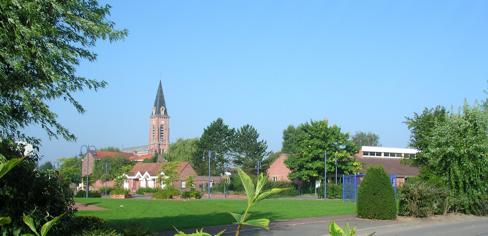 Lompret city hall and church are located on the same place. The school with its restaurant can be guessed on the very right of the picture.